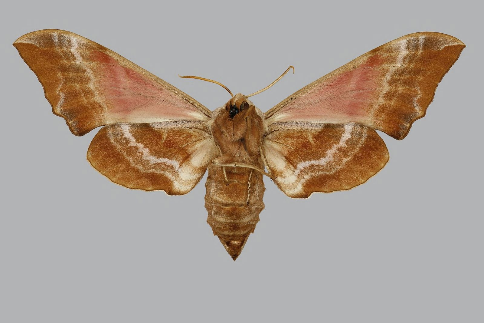 Smerinthus atlanticus female underside